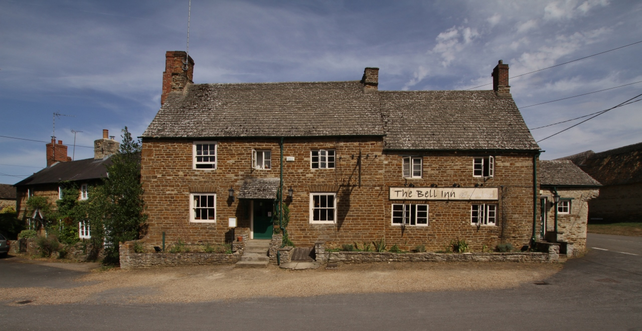 The Bell Inn, Market Square, Lower Heyford, Oxfordshire, seen from the west